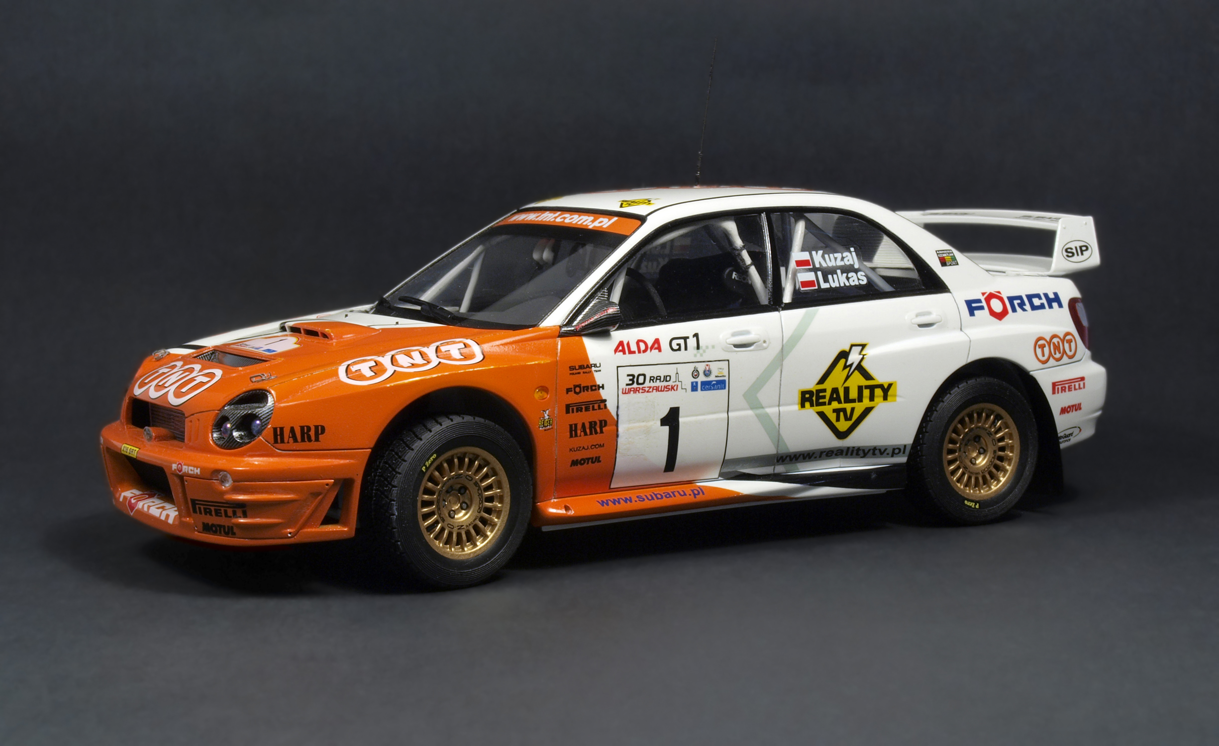 Hand Made Model Subaru Impreza WRC 2001. Scale 1:24